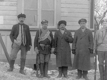 Vammalan punakaartilaisia